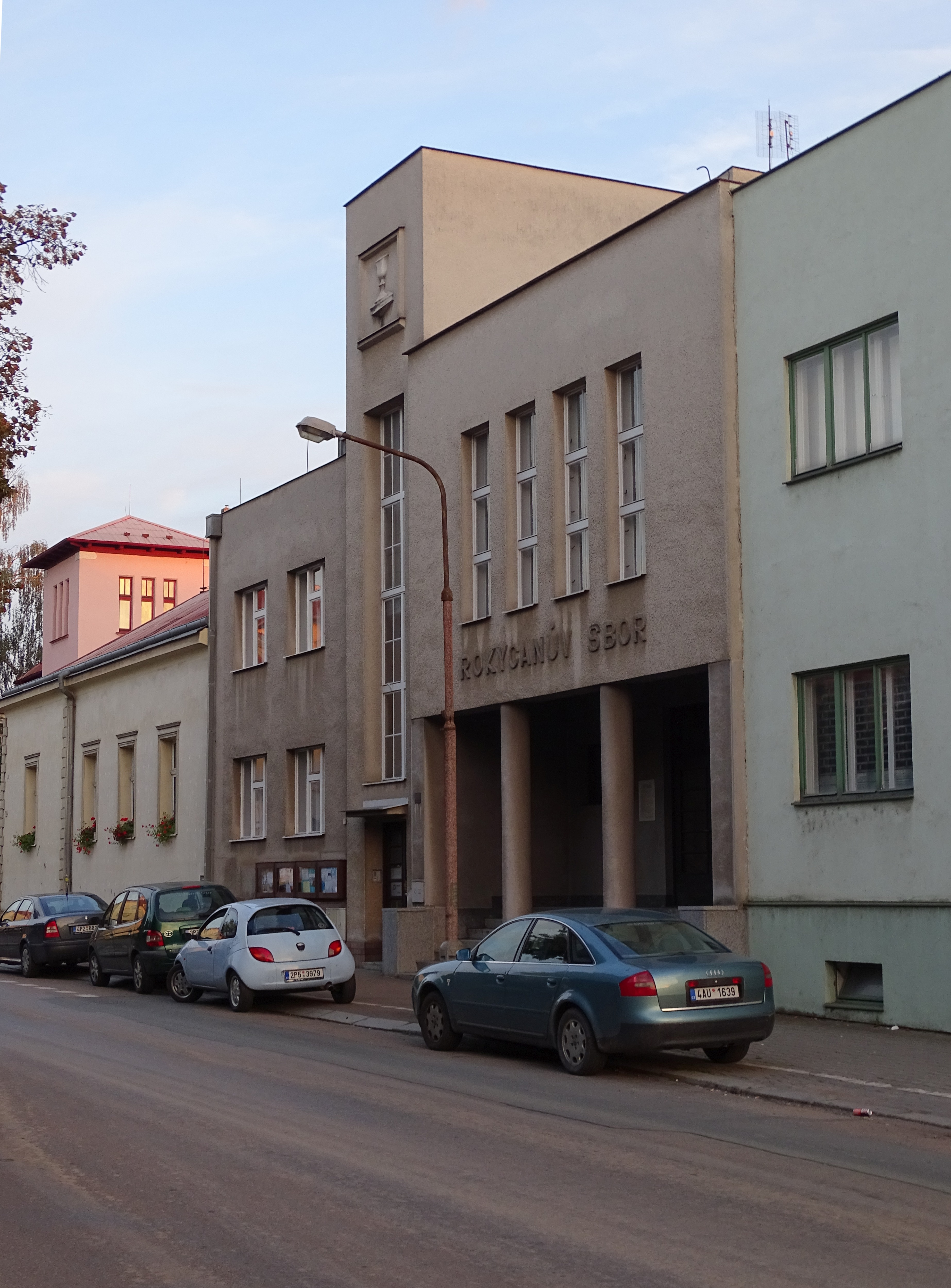 Rokycany, Rokycany District, Plzeň Region, the Czech Republic. Jiráskova 481.